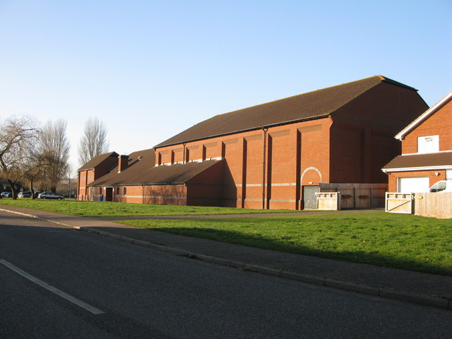 Cullompton Sportshall The centre for future budding athletes...